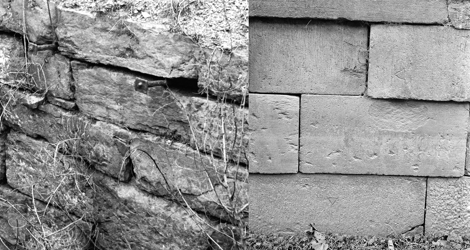 Difference in stonework between a composite lock (L) and normal lock (R). Composite lock is Lock 71, regular lock is lock 33. This is a montage of the photos (PD): image:Lock_71_on_Chesapeake_and_Ohio_Canal_from_HABS.png and image:Masons_marks_on_C_and_O_Canal_Lock_masonry_from_HABS.tif